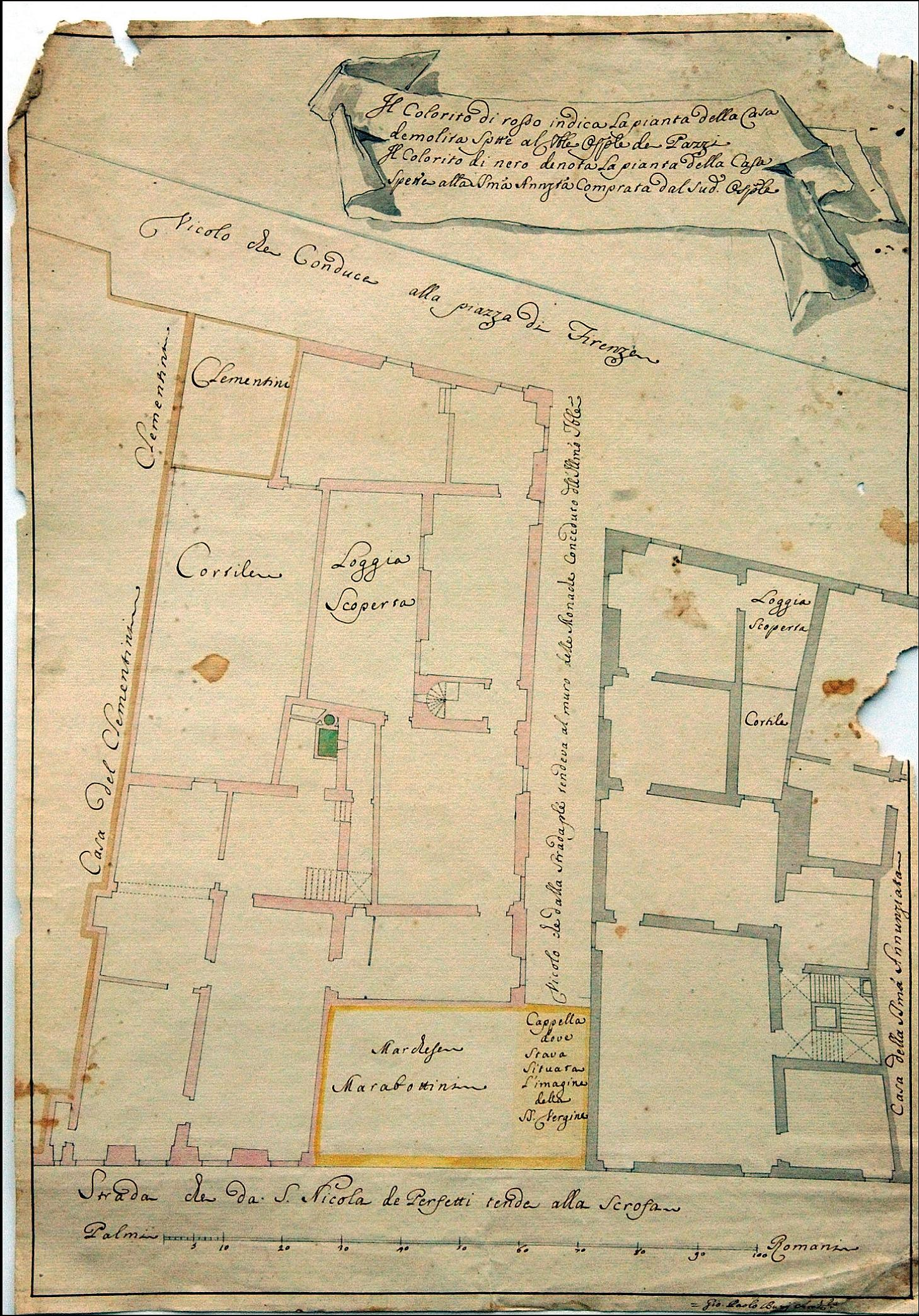 Plan of Palazzo Incontro (Rome), by G. P. Burij.